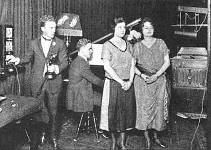 1922 photograph of performers in the WJZ radio studio, located in the Westinghouse plant in Newark, New Jersey (later WABC in New York City). Photograph caption in the magazine article is: "The Original Studio at WJZ". The article does not identify the persons in the photograph.